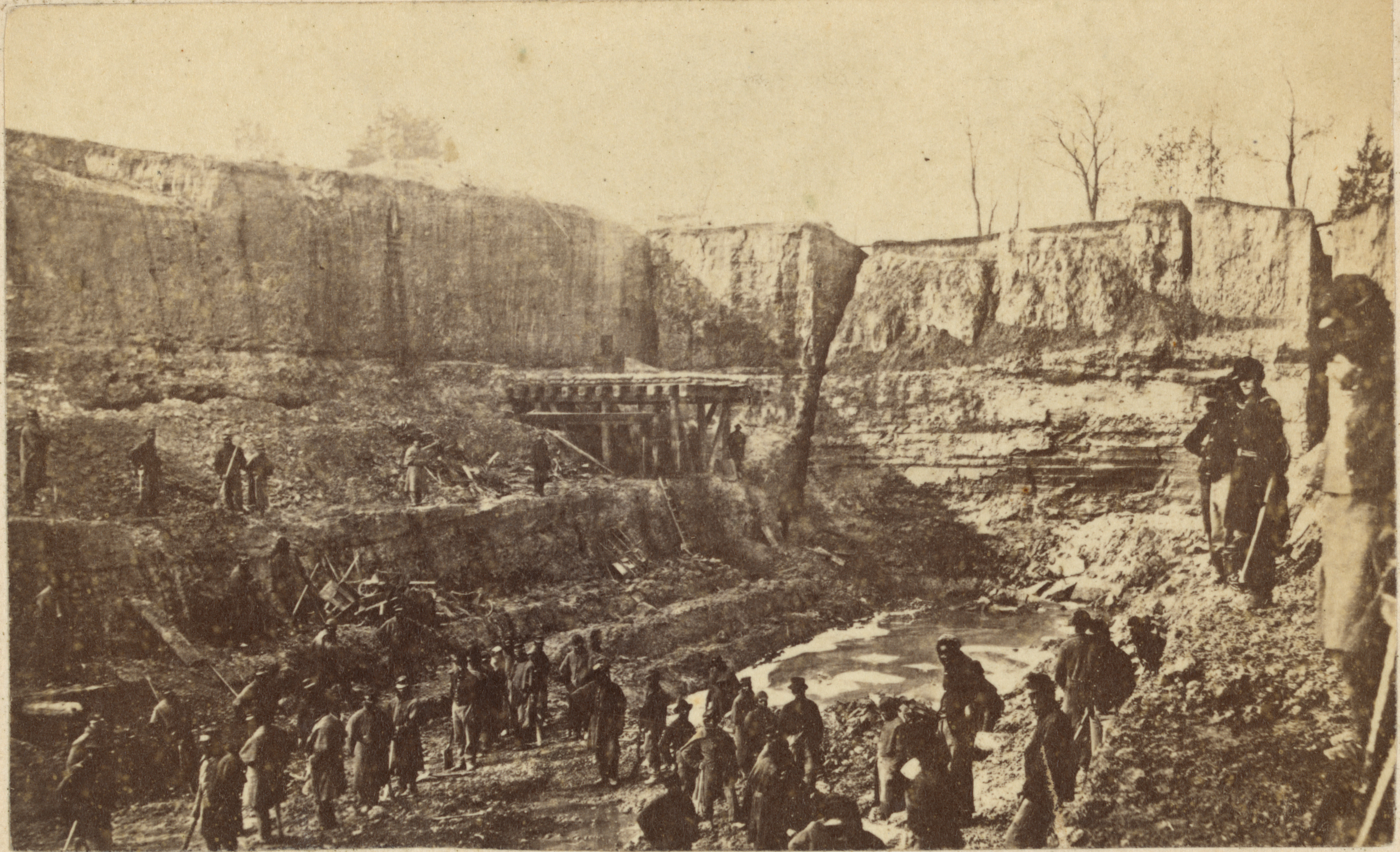 This shows united states color troops working on General Benjamin Butler's Dutch Gap Canal sometime in late 1864 or early 1865.